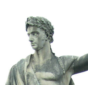 The statue of Ferdinand III, Grand Duke of Tuscany in Arezzo.